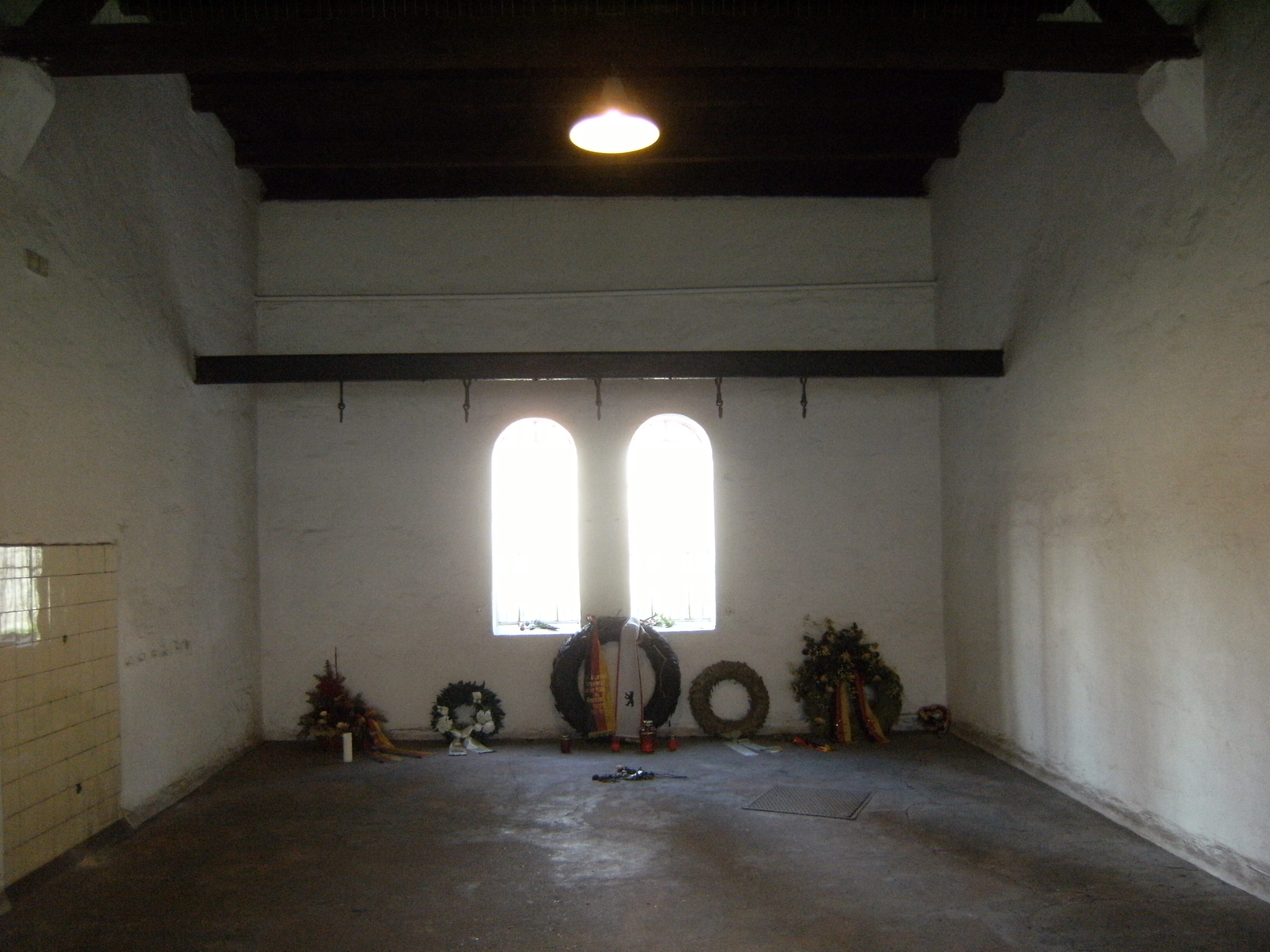 Plötzensee prison